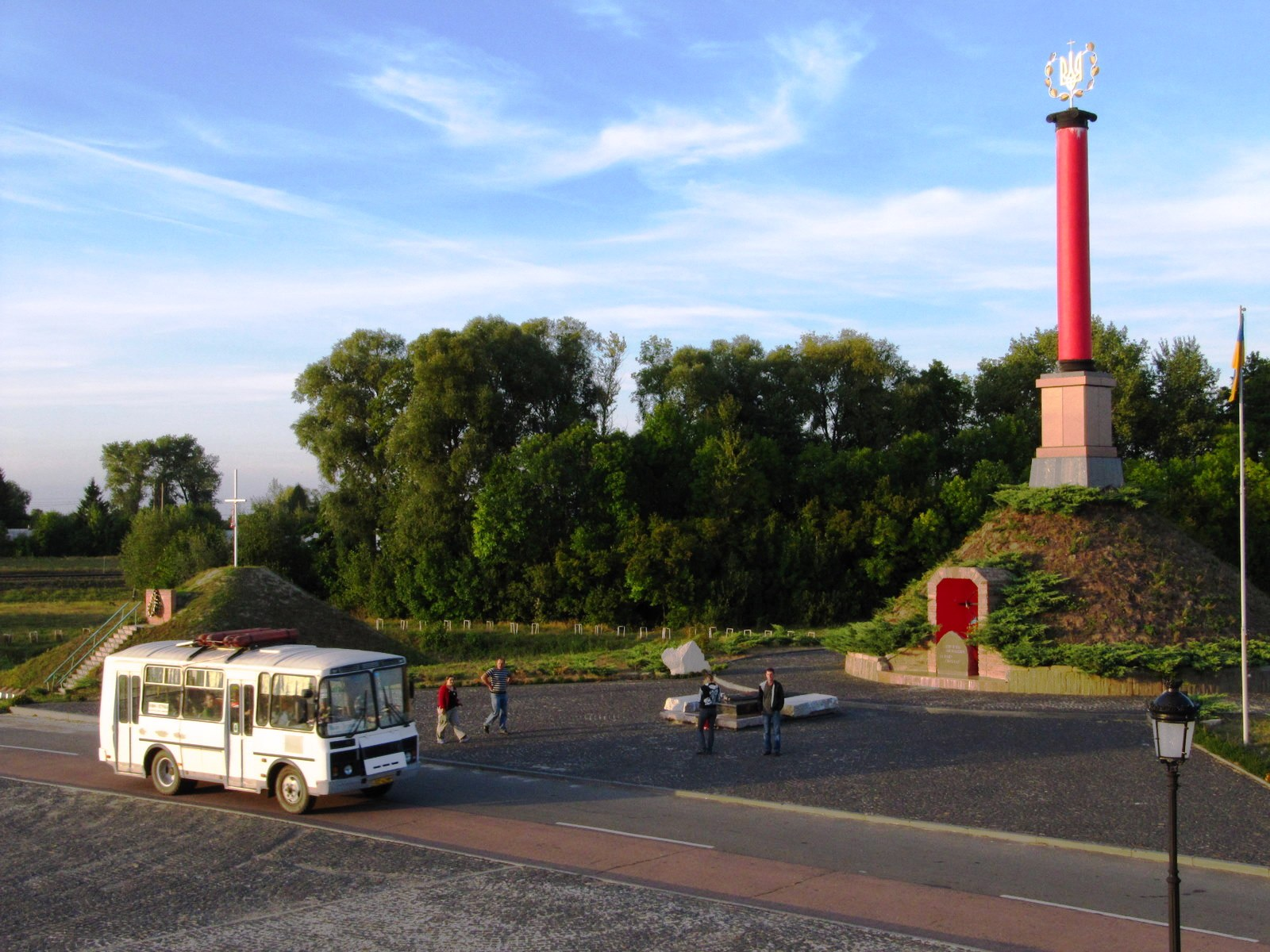 The Kruty Heroes Memorial.